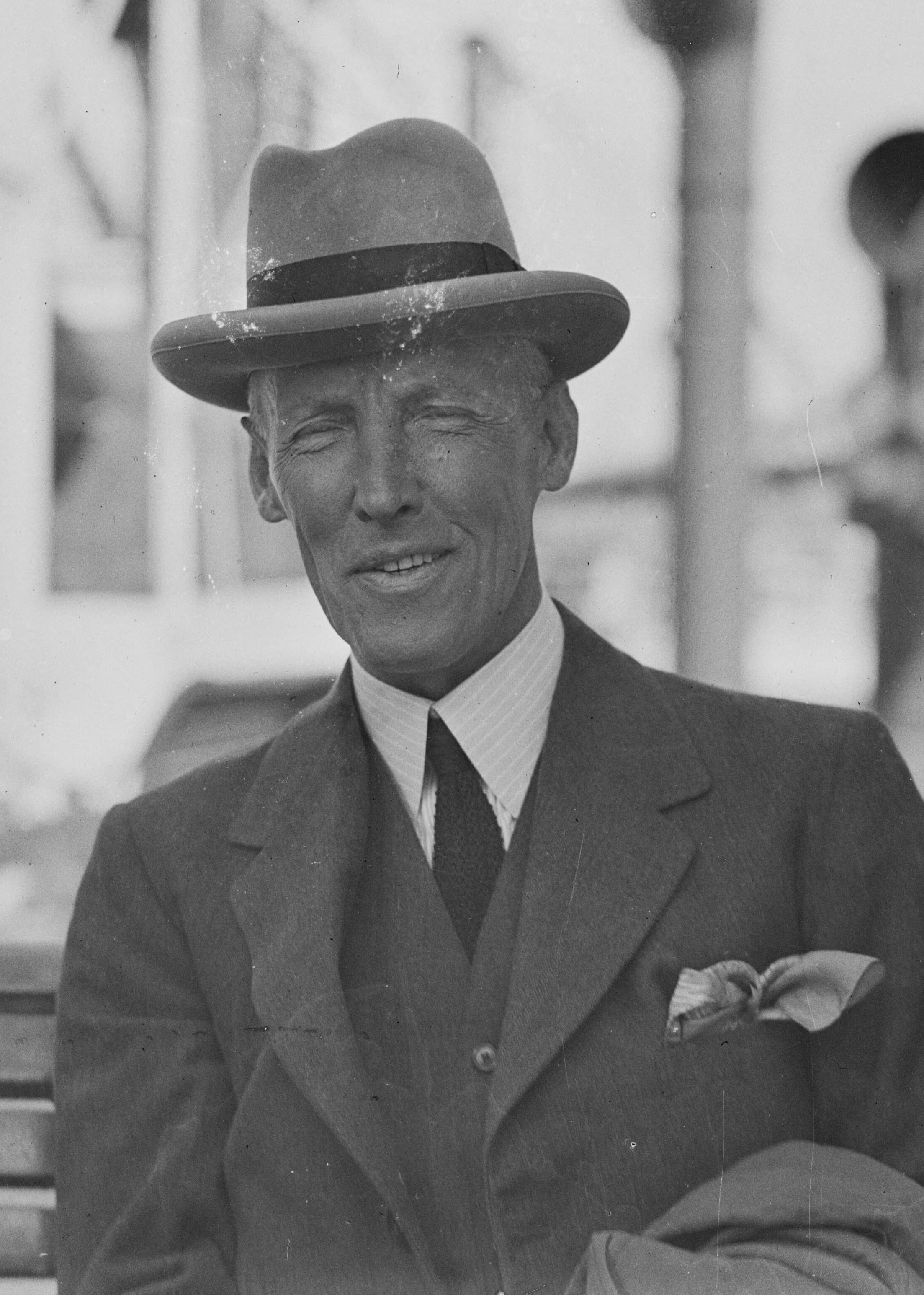 British physician Sir Ewen Maclean sitting on a bench on the deck of a ship, New South Wales